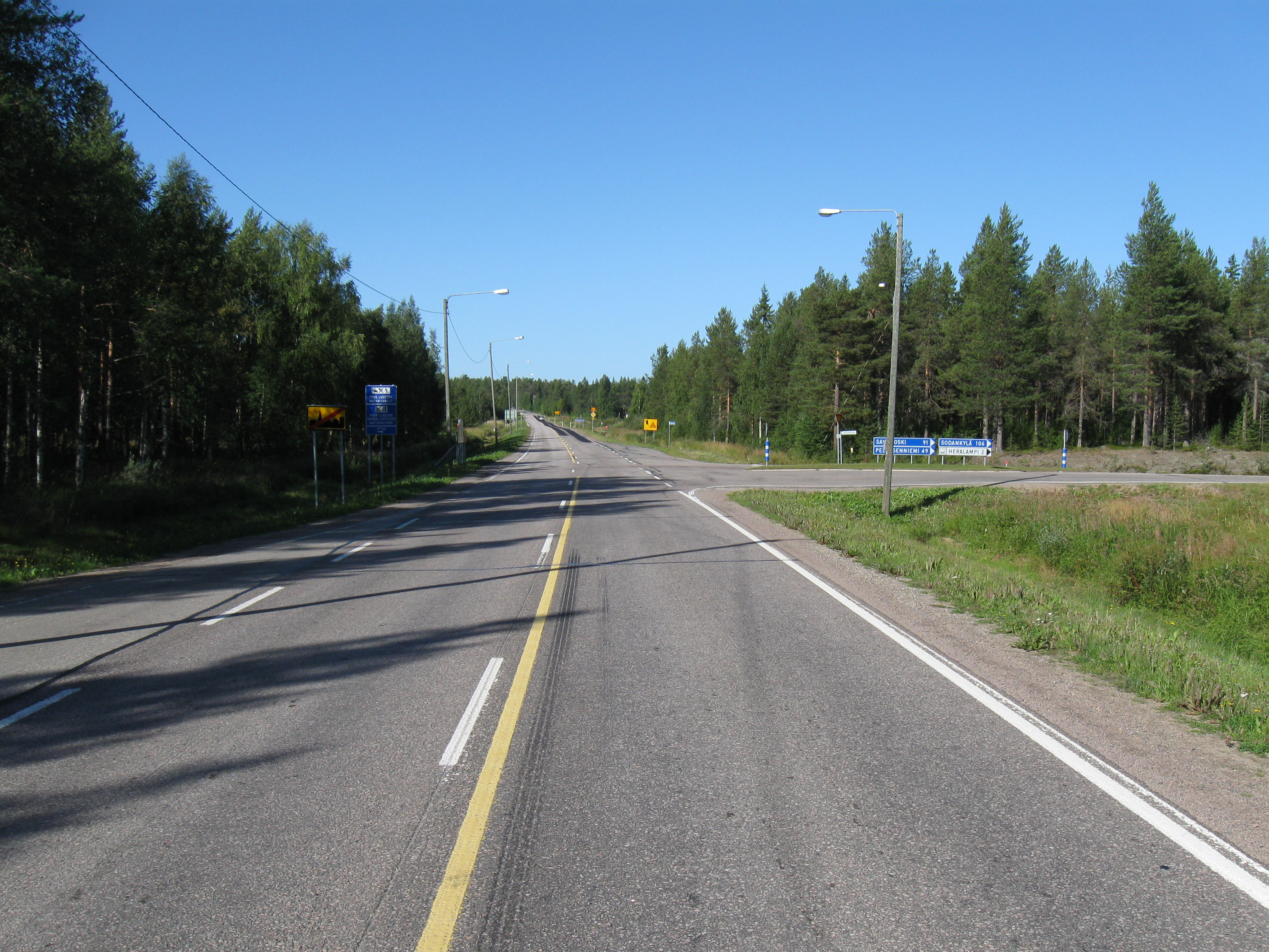 The intersection of the highway 5 (E63) and highway 82 in Kemijärvi, Finland, towards Rovaniemi.